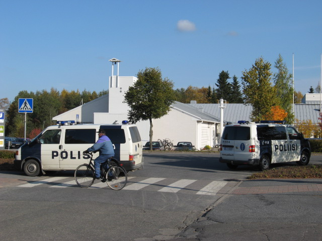 Police cars in front of Kauhajoen koti- ja laitostalousoppilaitos. Picture was taken few hours after Kauhajoki shooting incident.